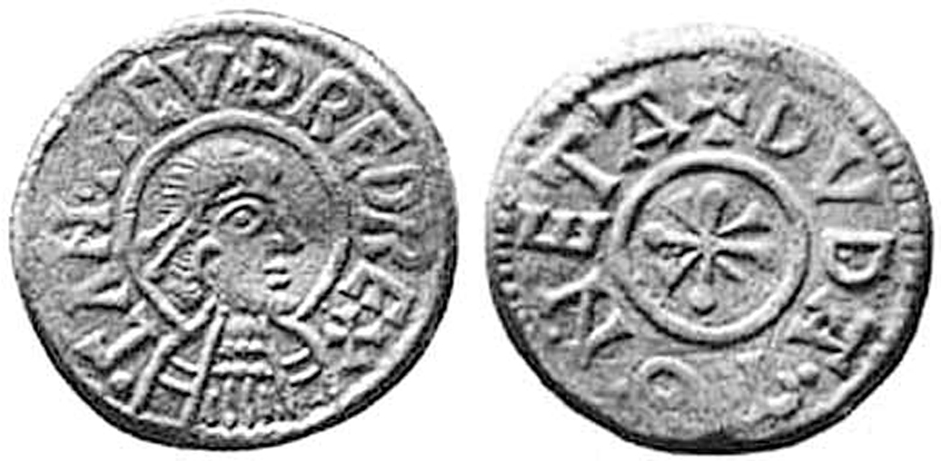 Coin of Cuthred, King of Kent in 798-807, minted 804-807 in Canterbury. EMC number 1963.0018 (Ref: BLS Cd 15g); Type: N 211 (Cuthred; portrait; rev. cross [Cross-and-Wedges]); Mint: Canterbury, moneyer uncertain [Duda?]; Weight: 1.17g; Findspot: Hertfordshire, England; Obv. + CVÐRED REX / CANT Rev. + DVDA MONETA Literature: C. E. Blunt, C. S. S. Lyon, and B. H. I. H. Stewart, 'The Coinage of Southern England, 796-840', British Numismatic Journal 32 (1963), pp. 1-74, coin no. Cd 15g. Edward Hawkins, The silver coins of England (1841), plate 4 no. 53.